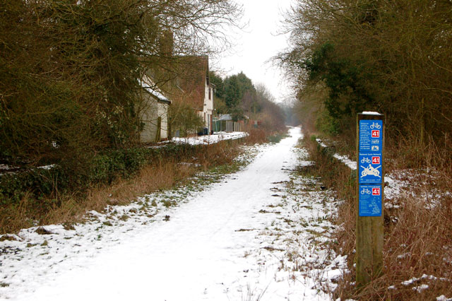 Looking north along the dismantled railway from Rugby to Leamington Spa at the site of the former Birdingbury station in Warwickshire showing the station house and the platforms.